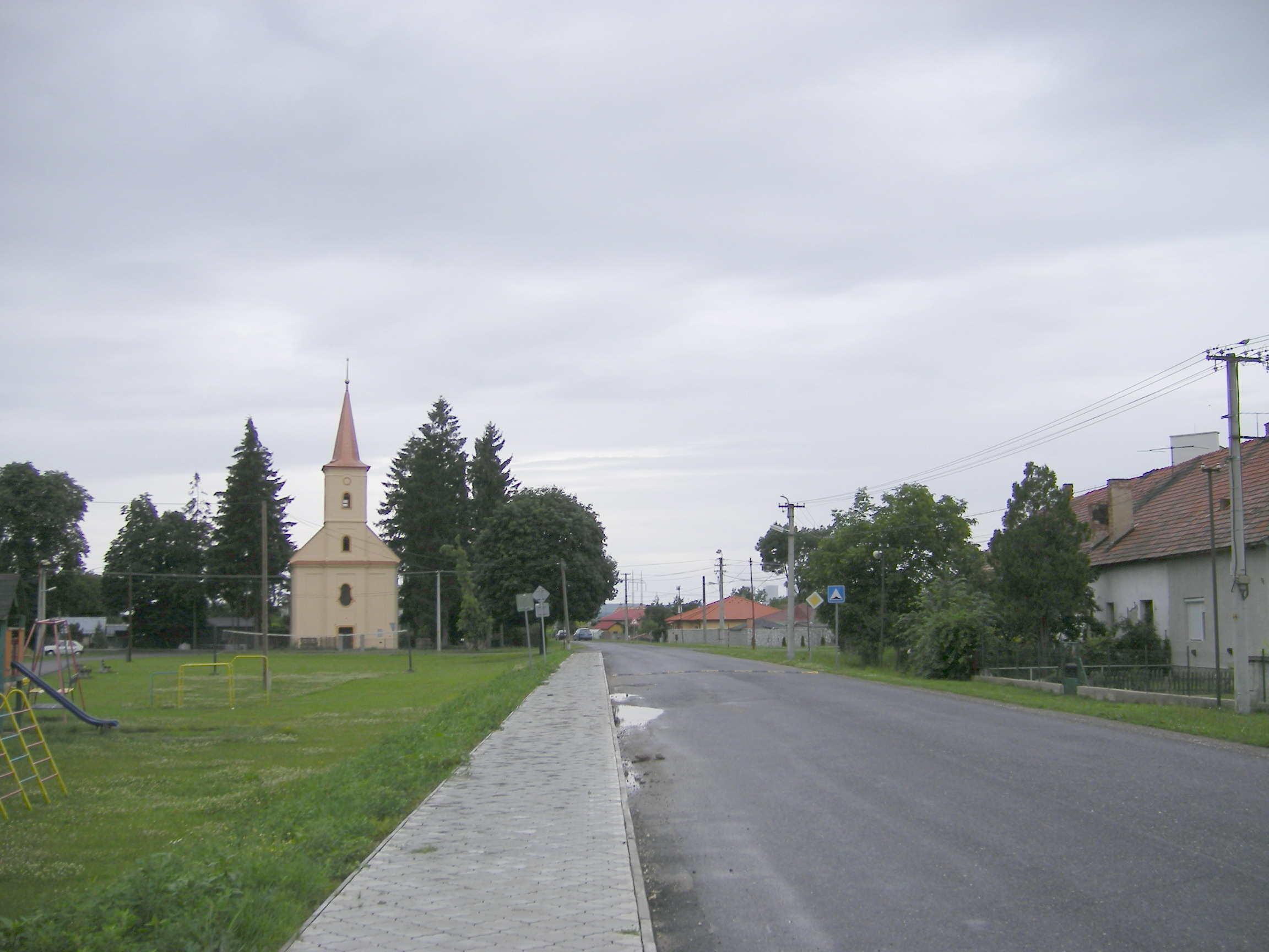 Kalná nad Hronom, Levice District - Kálnica Reformed church